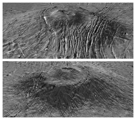 MOLA view of Alba Mons (PIA02803) 10:1 vertical exaggeration